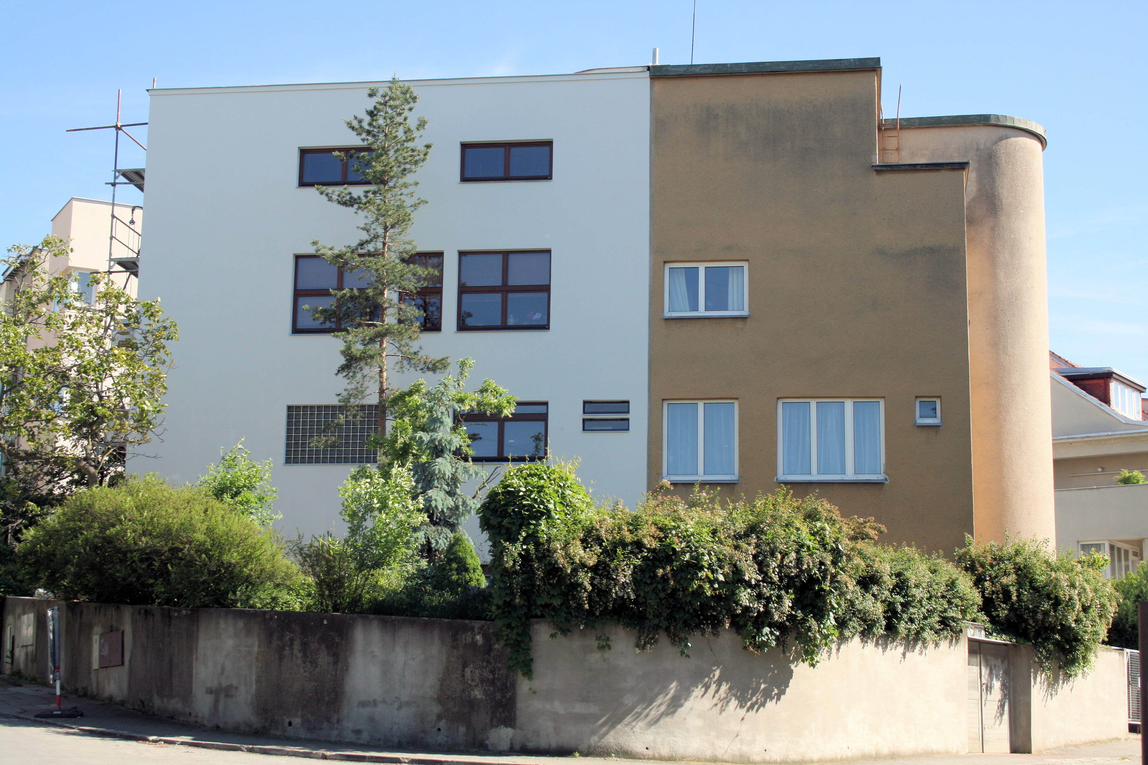 Villa of Bohuslav Fuchs. Brno, Czech Republic.